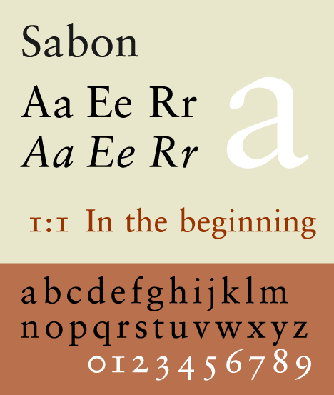 Specimen of the typeface Sabon. 24.02.07, Jim Hood.